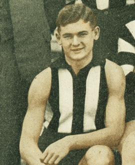 Photo of Percy Bowyer from 1928-1938